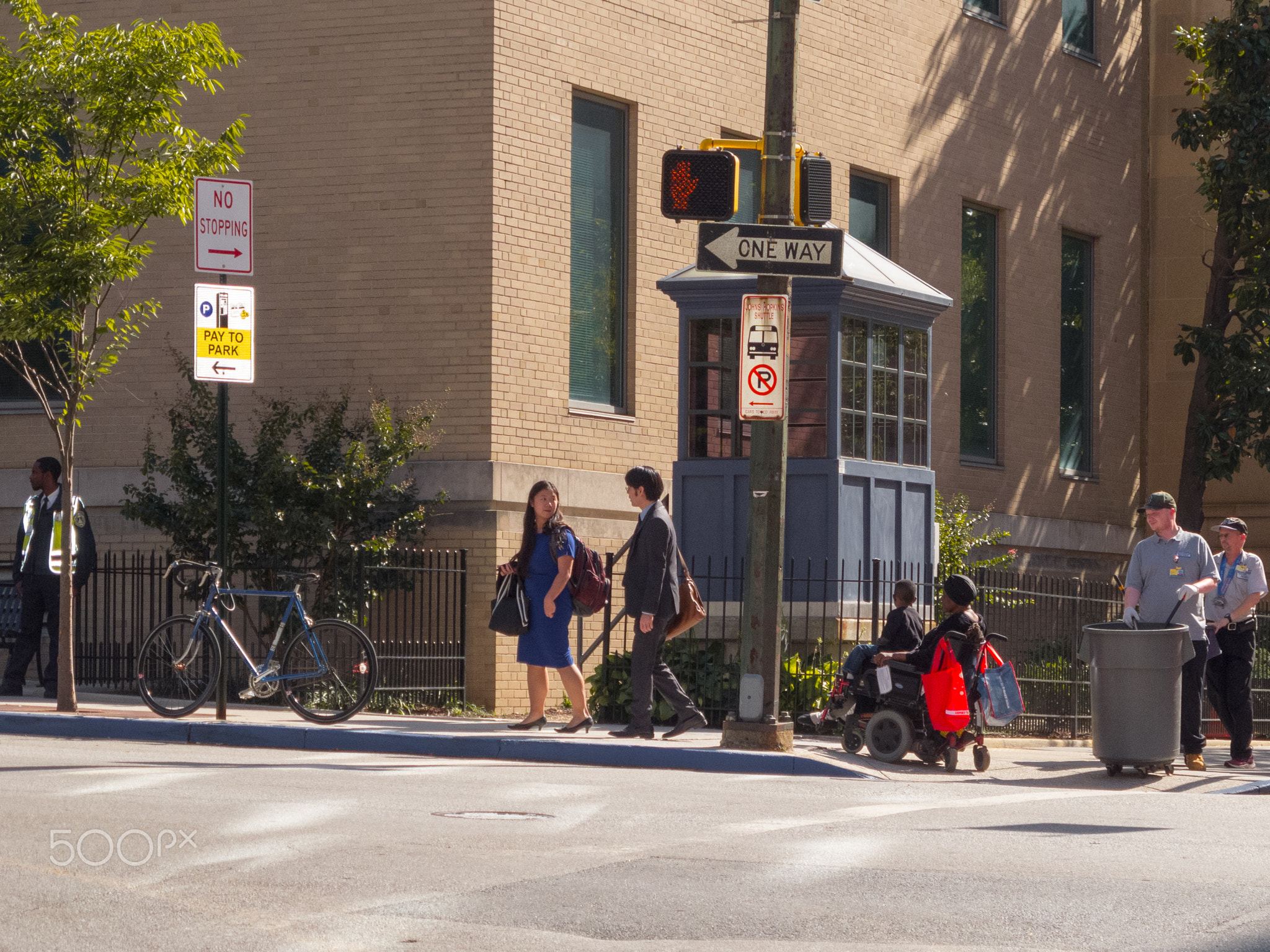 500px provided description: A picture says a thousand ills. [#city ,#medicine ,#state ,#class ,#workers ,#security ,#g12 ,#academic ,#handicapped ,#Street ,#Maryland ,#Baltimore ,#October ,#Jason knauer ,#Social Order]